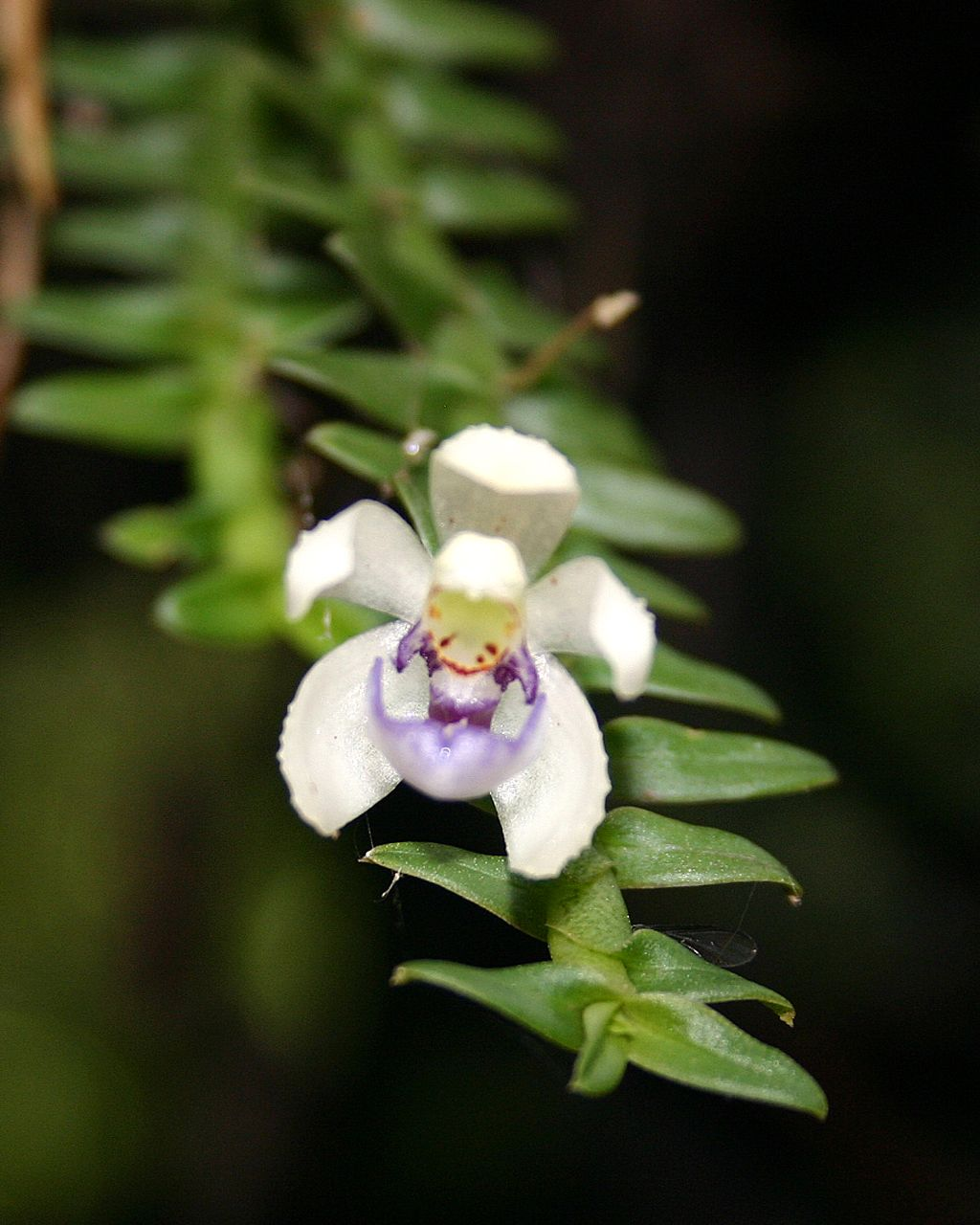 Dichaea squarrosa in Huitepec State park, Chiapas Mexico Author: Lucas renique